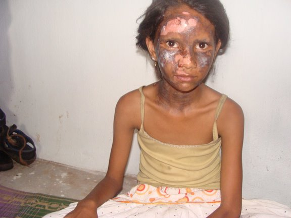 A Christian girl who was bruised and burnt during the Orissa violence in August 2008. This girl was injured with burns bruises during anti Christian violence by Hindu nationalists. It occured when a bomb was thrown into her house by extremists.